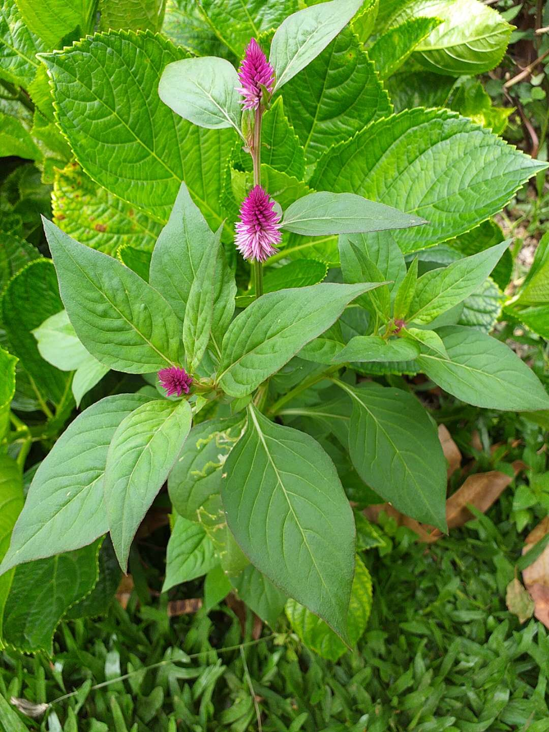 Flower and leaf. 2018 Taichung World Flora Exposition, Taiwan.